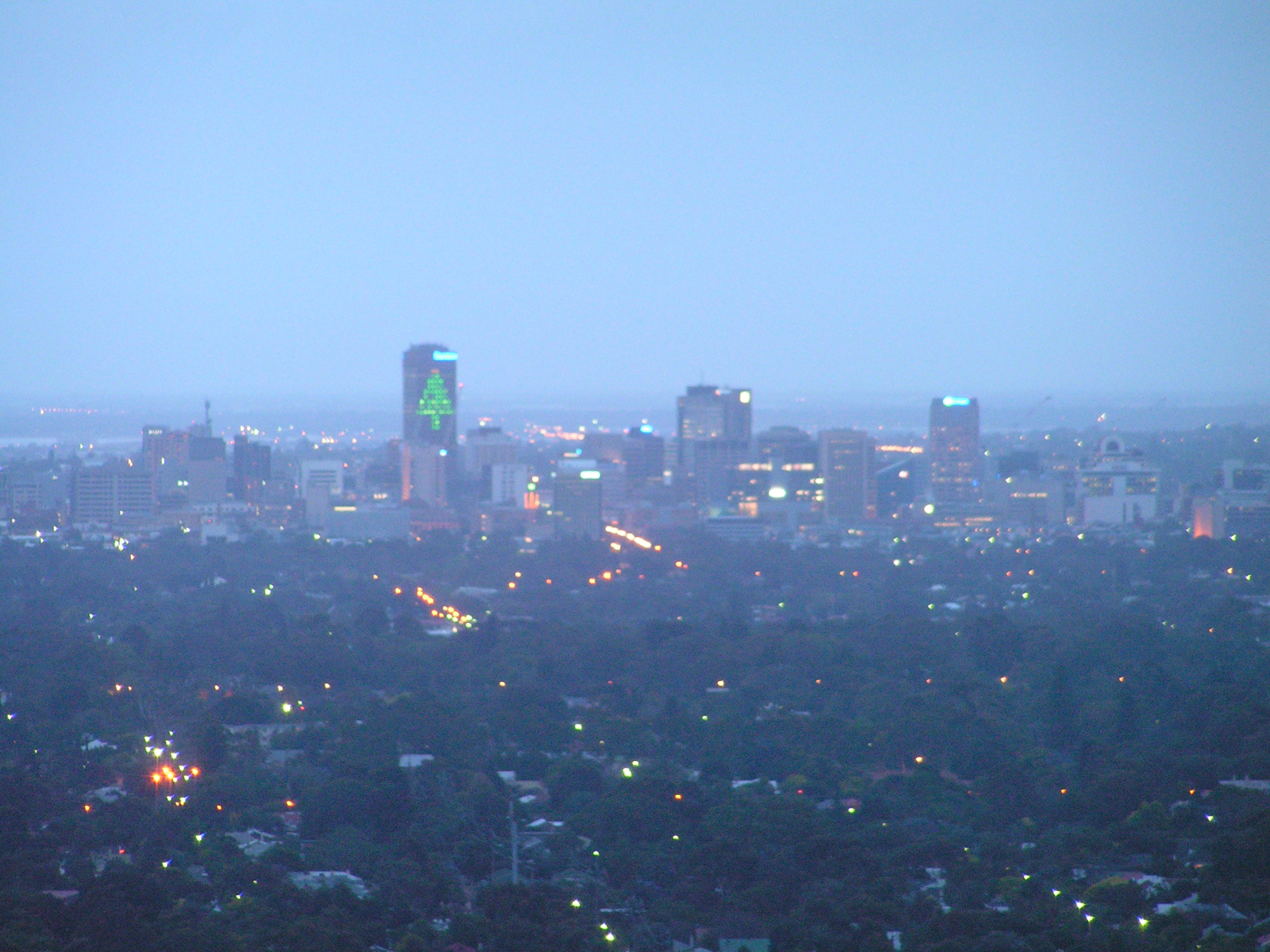 Photo of Adelaide at dusk